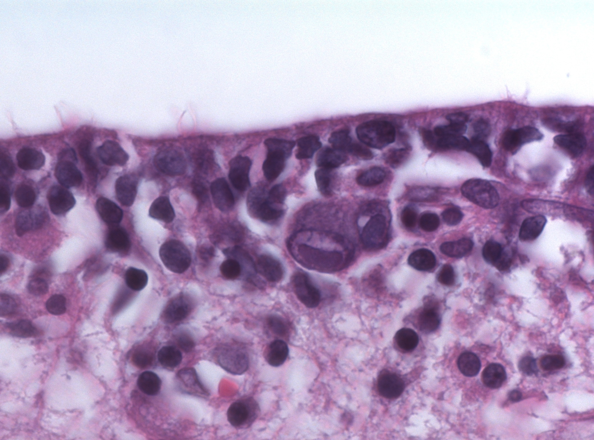 Cytomegalovirus infection in fetal brain (CMV encephalitis) with typical owl eye appearance of infected cells (Histology specimen, HE stain)